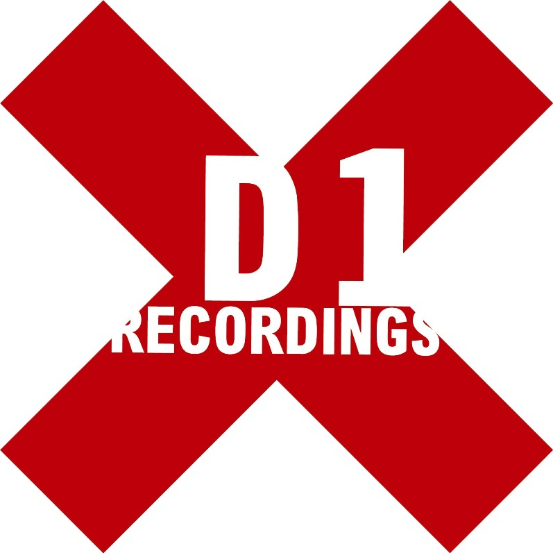 Design by Niall Sweeney / PONY ltd.